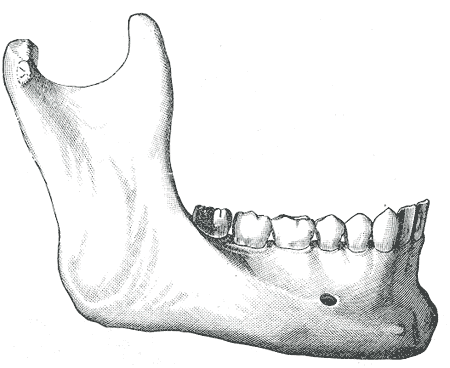 The mandible in the adult (side view).